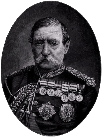 Robert Napier, 1st Baron Napier of Magdala